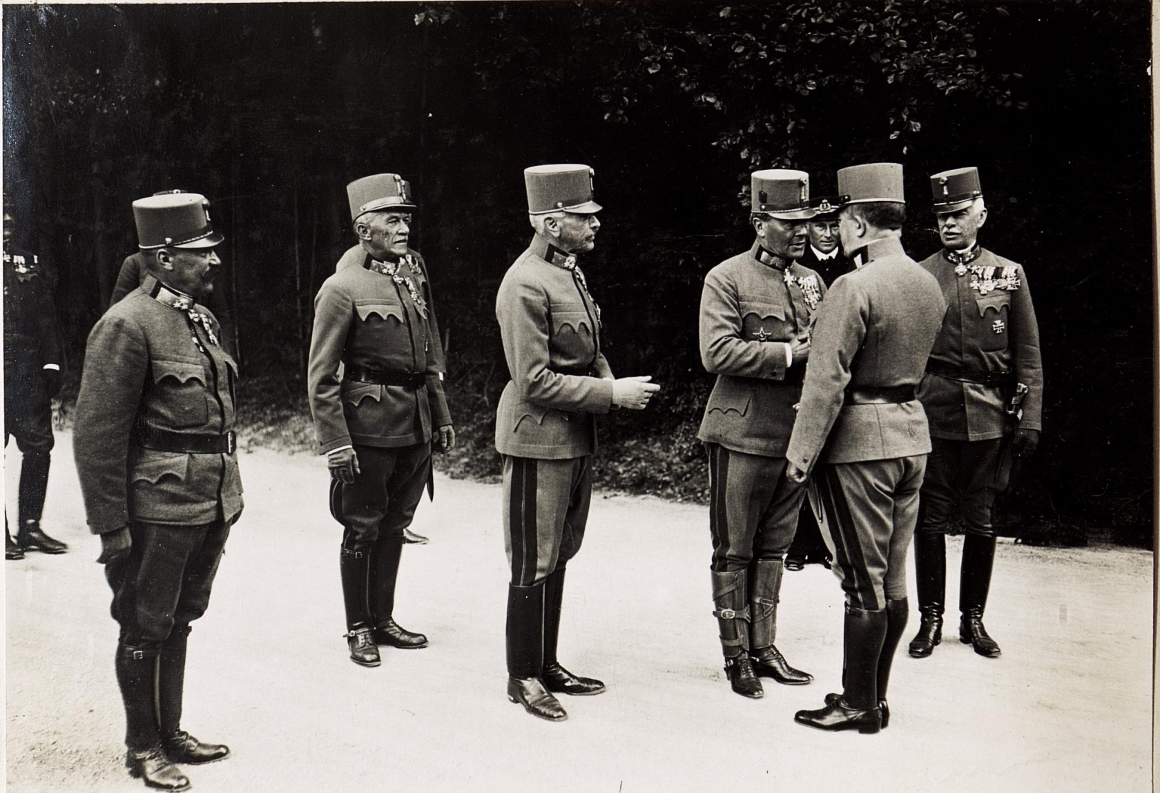 180th investiture in the history of the Military Order of Maria Theresa on 17 August 1917 at Schloss Wartholz. Left to right: General of the Infantry Ignaz Trollmann — General of the Infantry Sándor Szurmay — Colonel General Viktor Dankl — Field Marshal Hermann Kövess von Kövessháza (shaking hands with Arz von Straußenburg) — Lieutenant Commander Emmerich Schonta von Seedank — General of the Infantry Artur Arz von Straußenburg — Minister of War & General of the Infantry Rudolf Stöger-Steiner von Steinstätten.